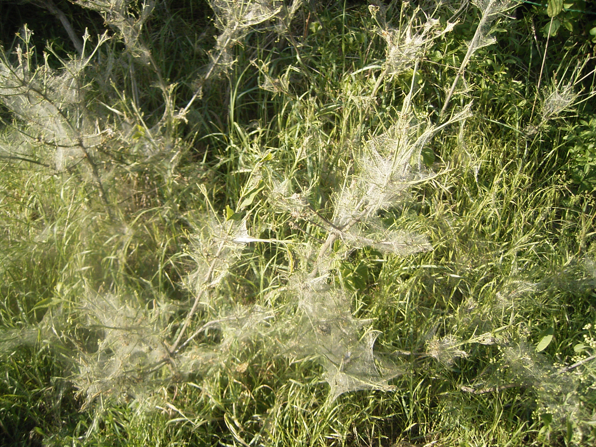 This photo shows the silk of the larvae of Yponomeuta cagnagellus